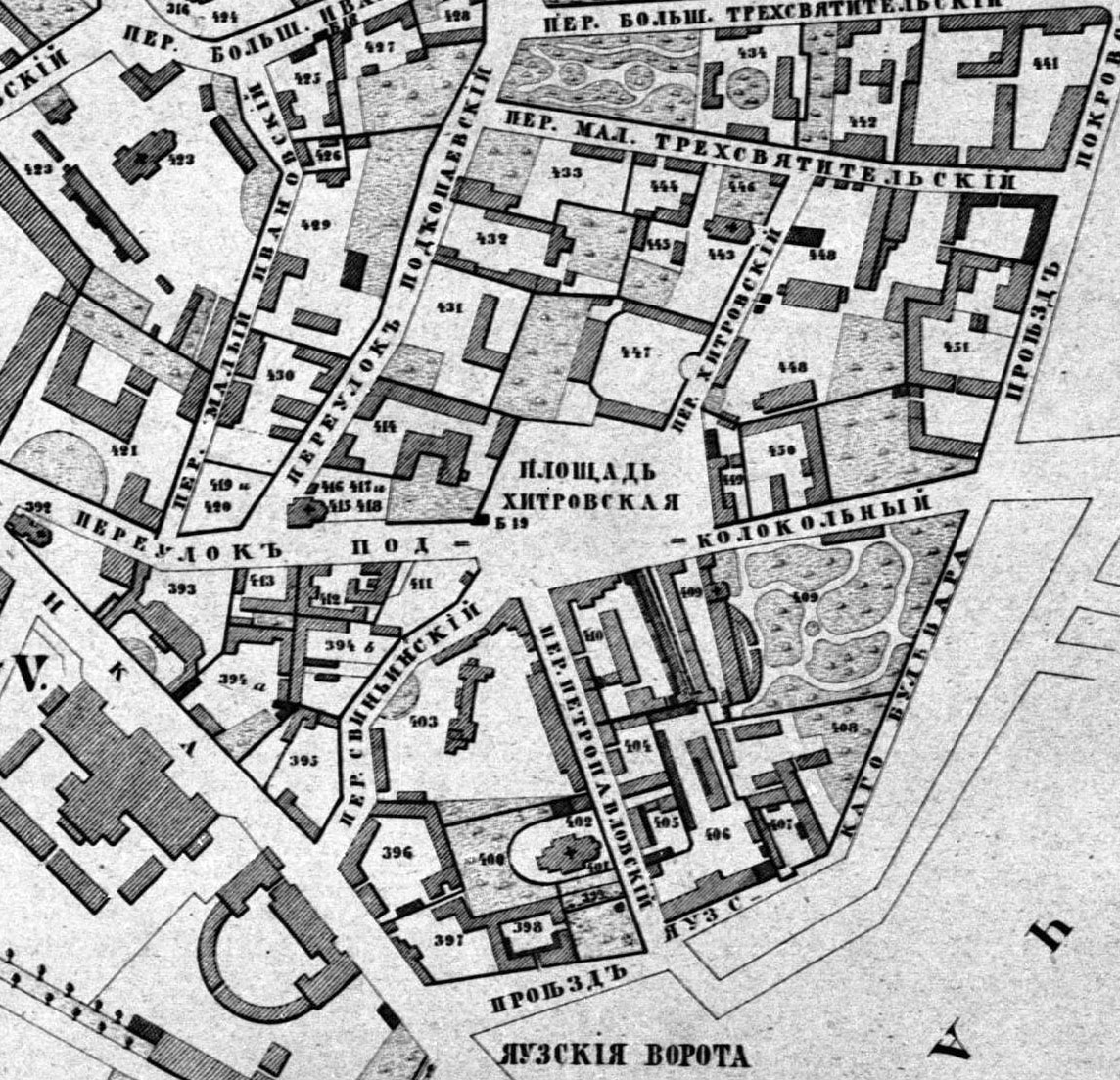 1853 map of Khitrov Market neighborhood, Moscow